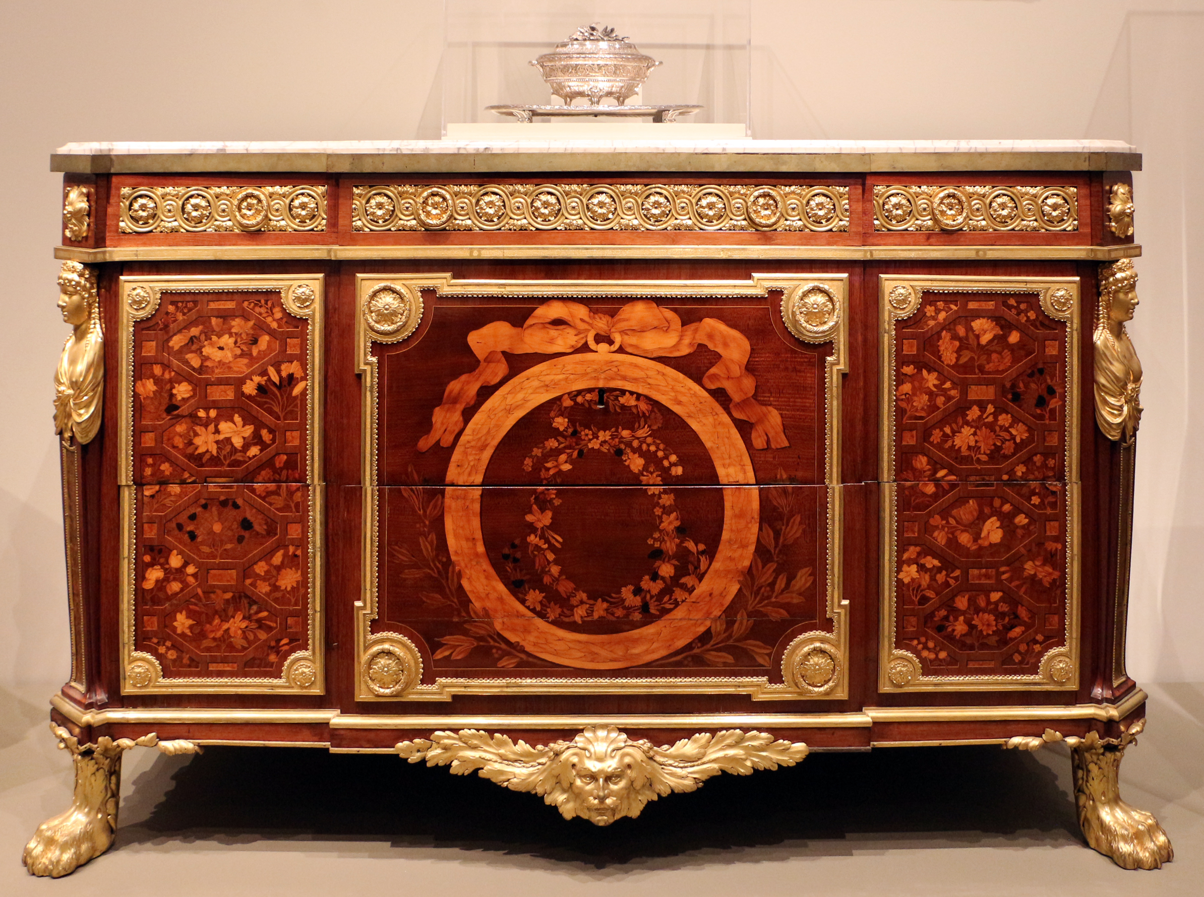 European furniture in the Art Institute of Chicago